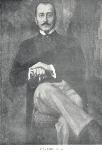 Portrait Atanasije Šola